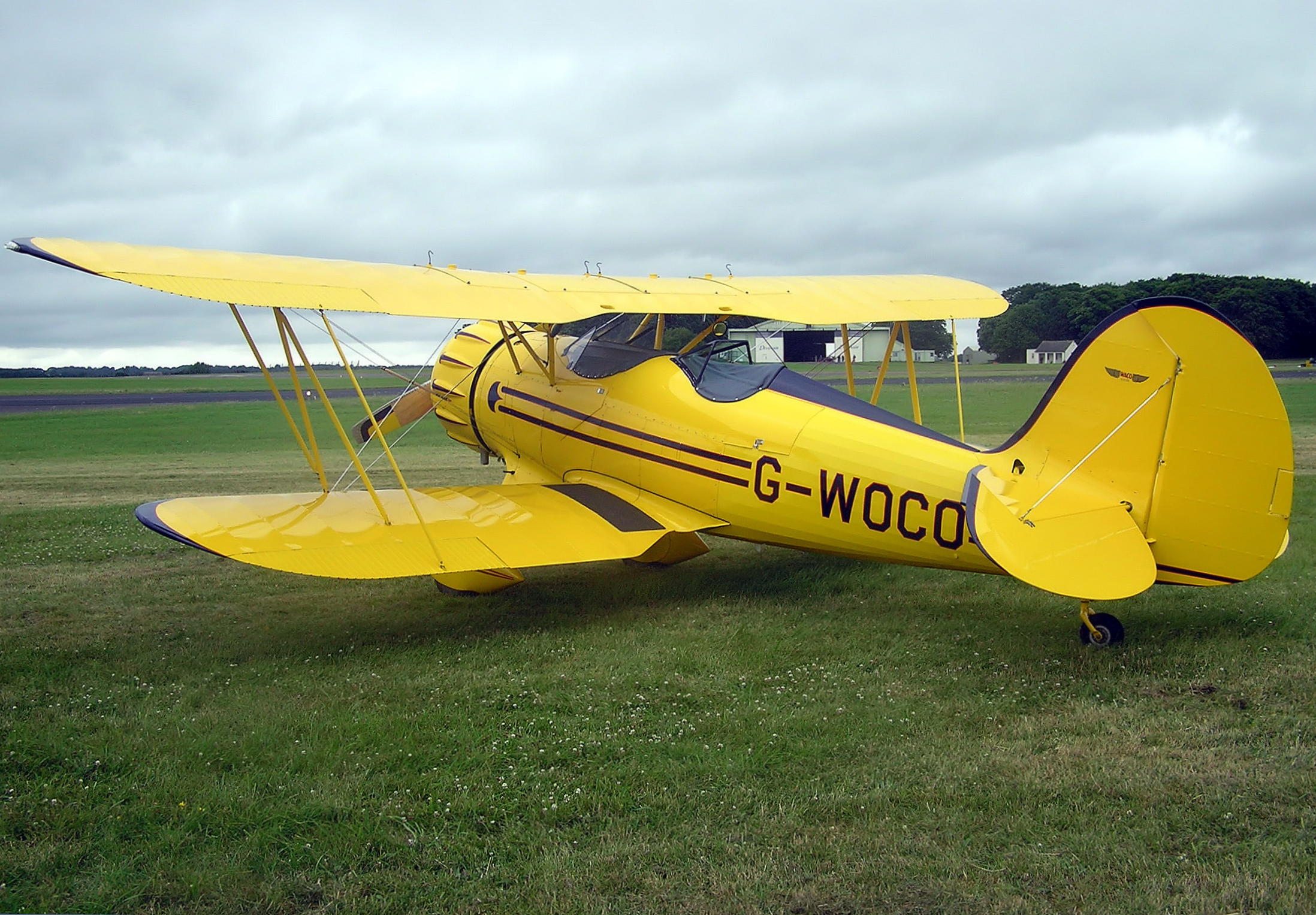 Waco YMF-5C (UK registration G-WOCO) at Kemble Airfield, Gloucestershire, England. G-WOCO was built in the year 2000. Production of the first YMF-5’s was in 1934 and 1935, production then resumed in 1986. Photographed by Adrian Pingstone in July 2005 and released to the public domain.